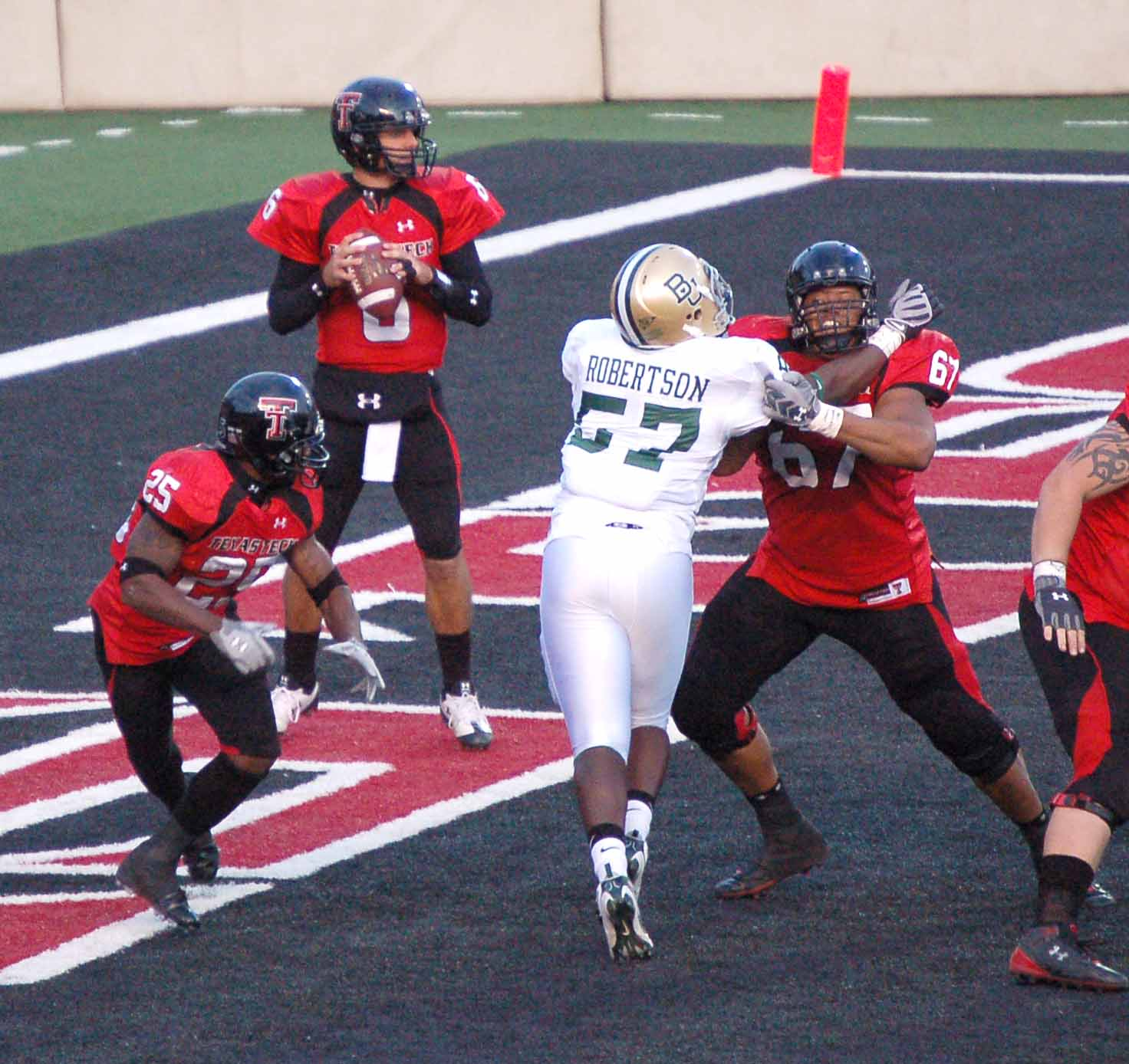 Graham Harrell, senior quarterback for Texas Tech, is pictured in action against Baylor in his final home game in 2008. Harrell had broken two fingers in his left hand earlier in the game, but stayed in the game and led Tech to victory.